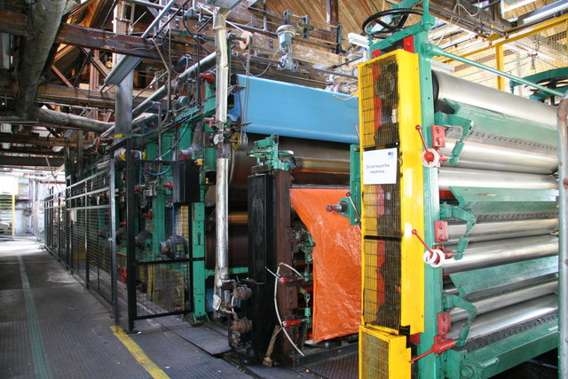 Fourdrinier paper machine, Frogmore Mills This is a very historic site and was apparently where this machine (not this particular one) was first used in the UK in 1803. This more modern machine is operated by a charitable trust and is still in use. It is of great interest as it is driven by a steam engine - one of very, very few still in commercial service in the UK.